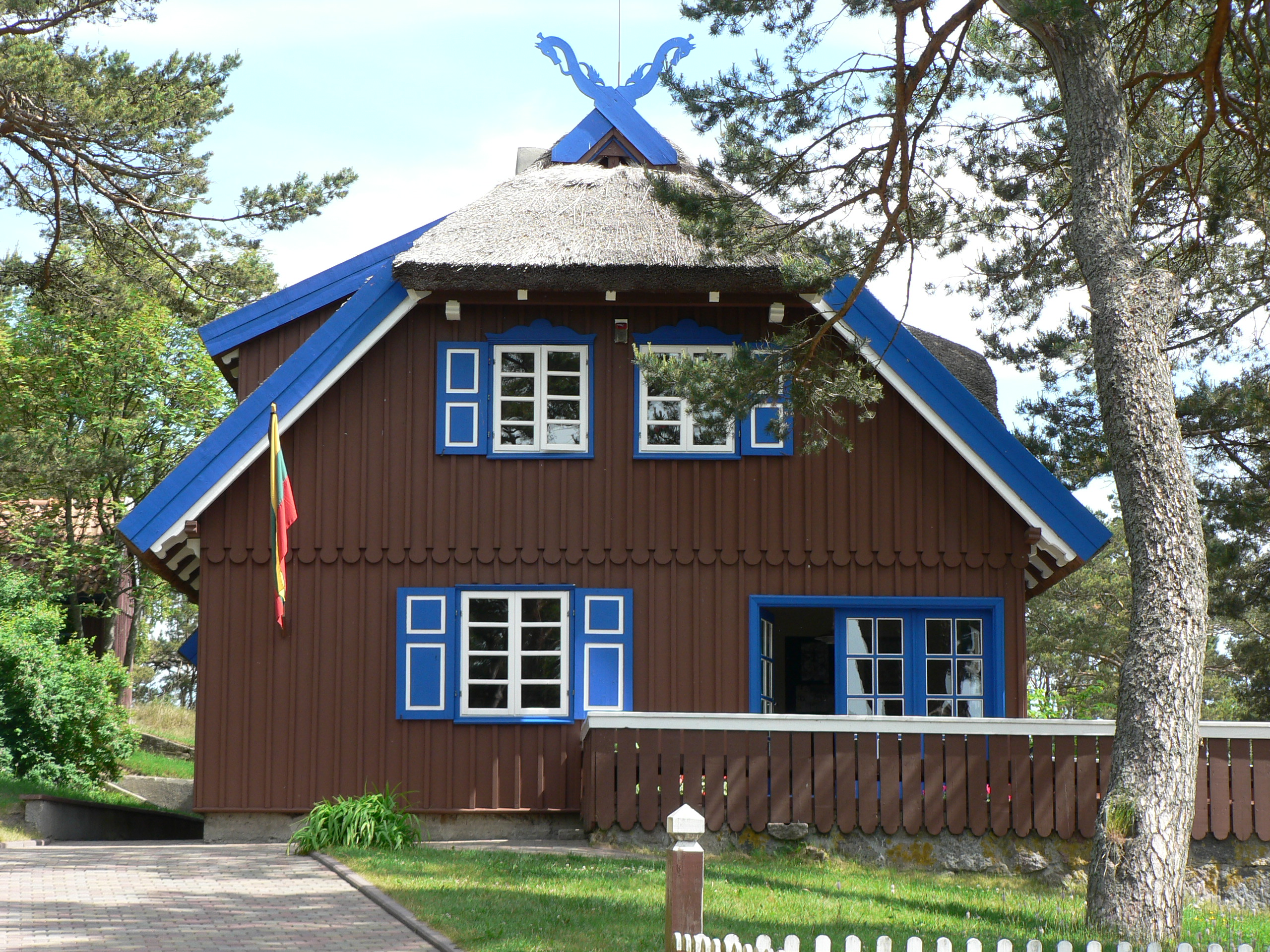 Thomas Mann cottage in Nida, Lithuania.